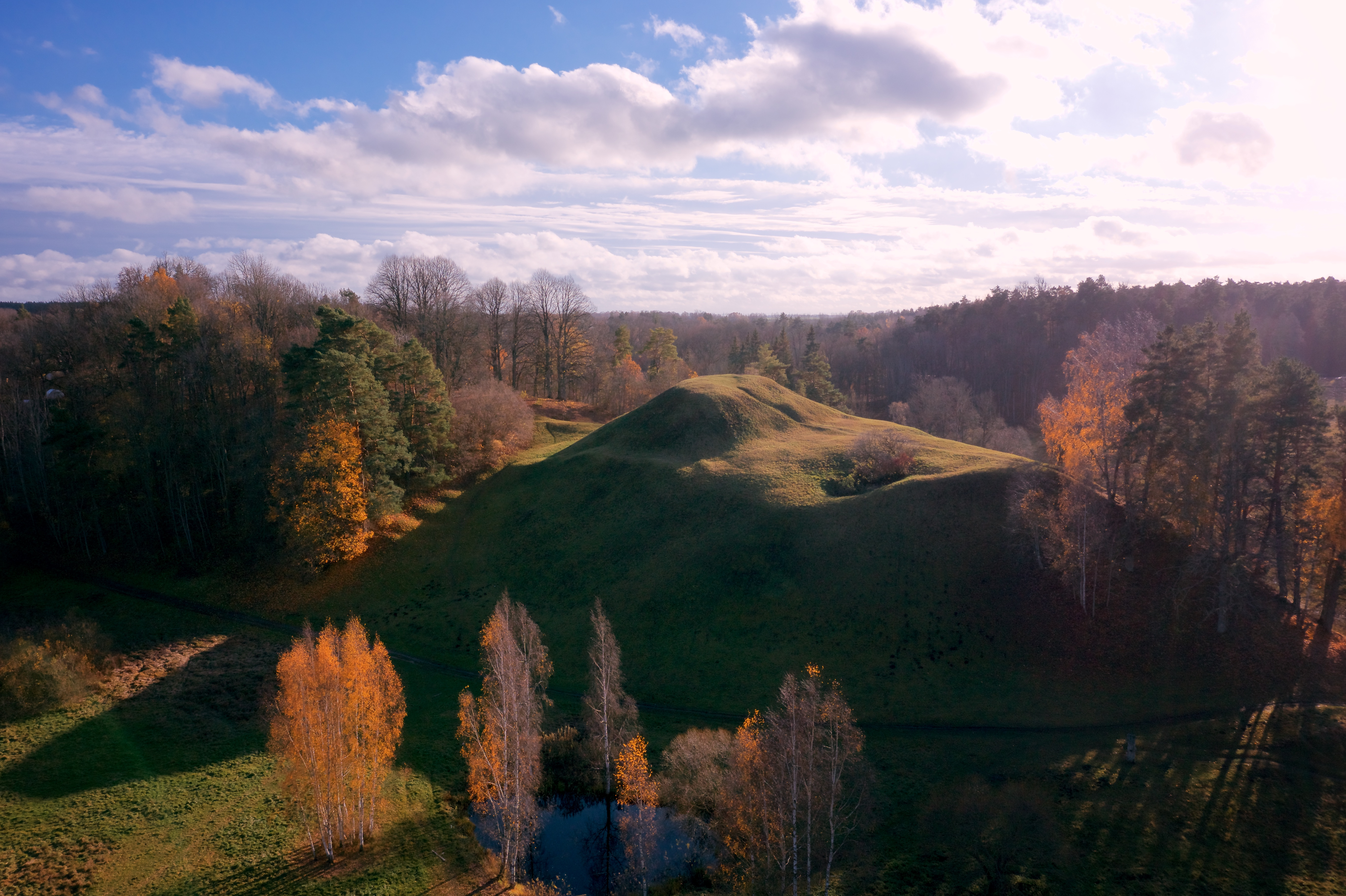 A drone photo of Tērvete’s Hillfort in Nature Park of Tērvete.